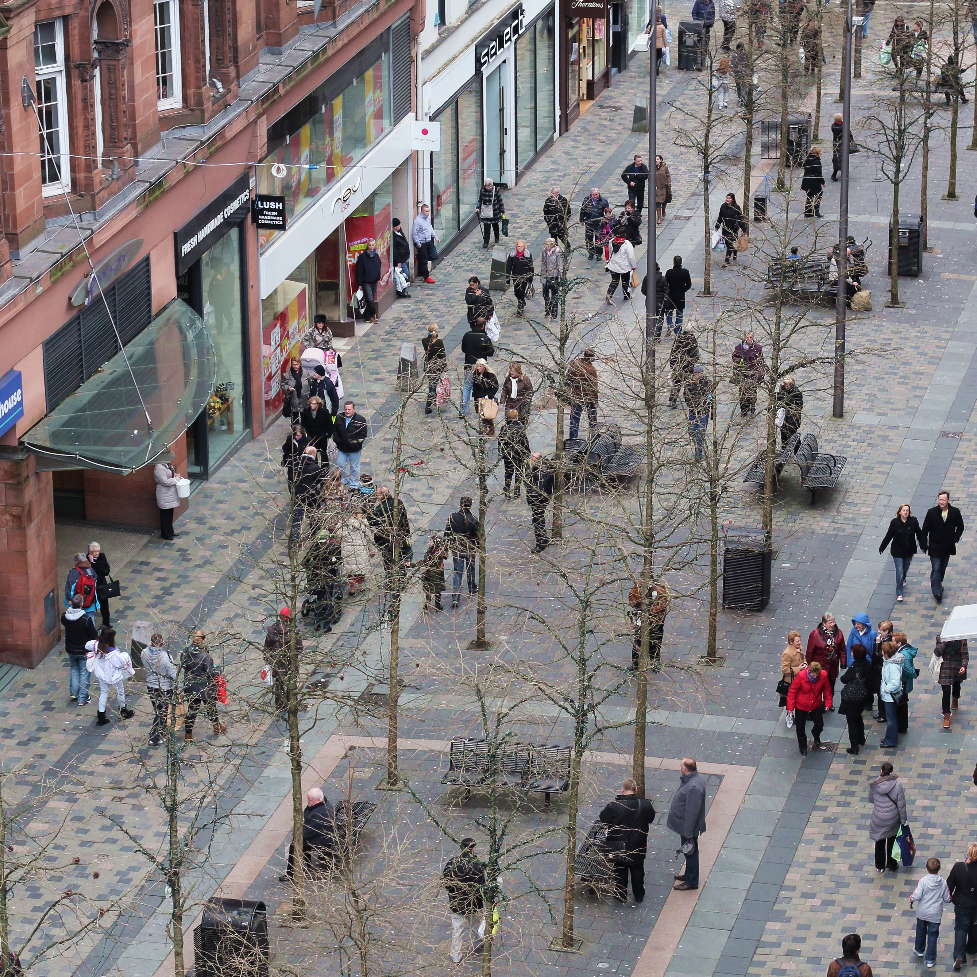 Sauchiehall Street on a Saturday afternoon (13:03, to be precise) on 7th January 2012. Photo taken from Sauchiehall Street Centre car park roof.